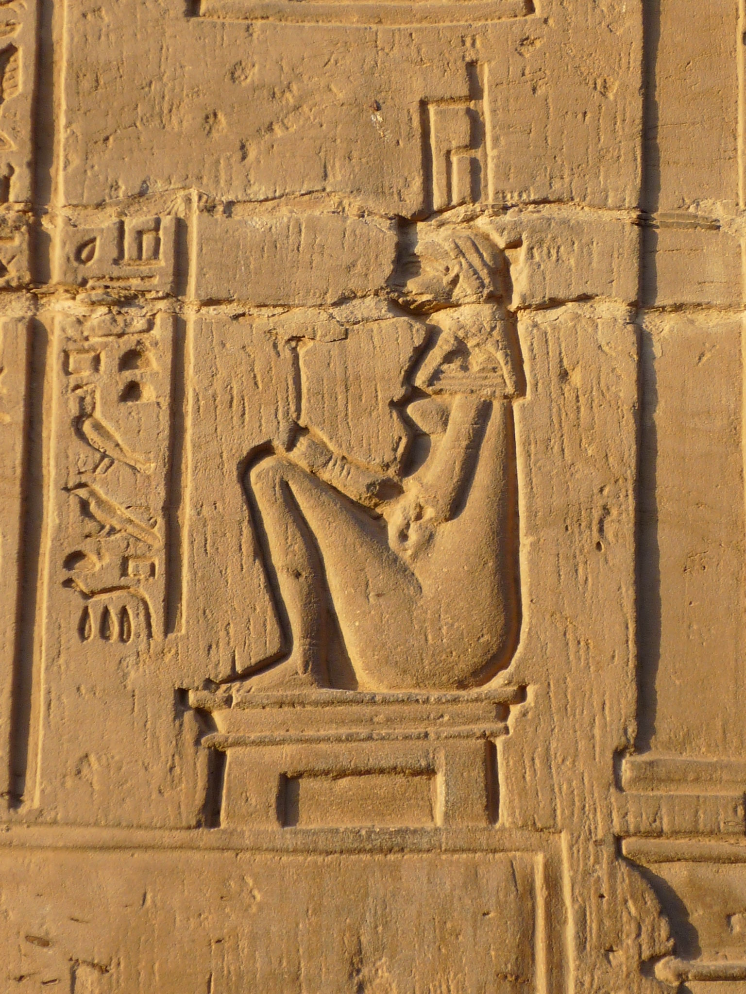 Wall relief of Isis, Kom Ombo Temple, Egypt